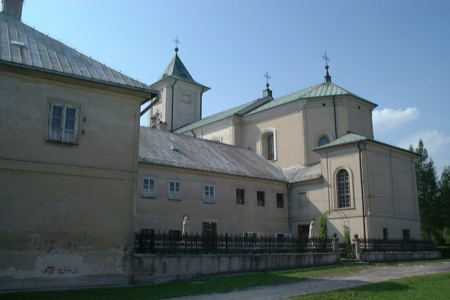 Poland, Imbramowice - convent.